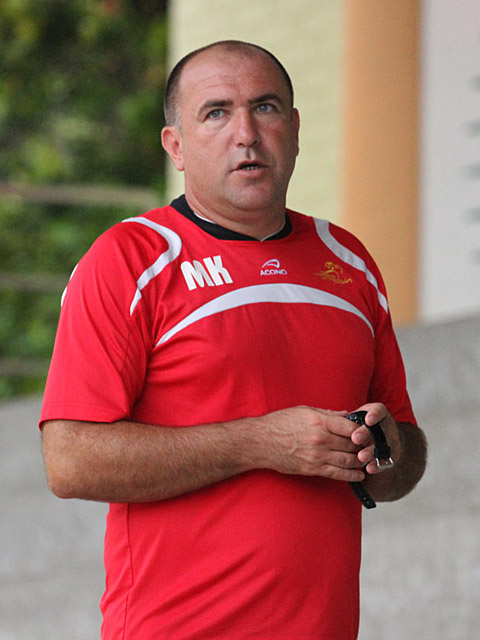 Marko Kraljevic with Woodlands Wellington in 2012.